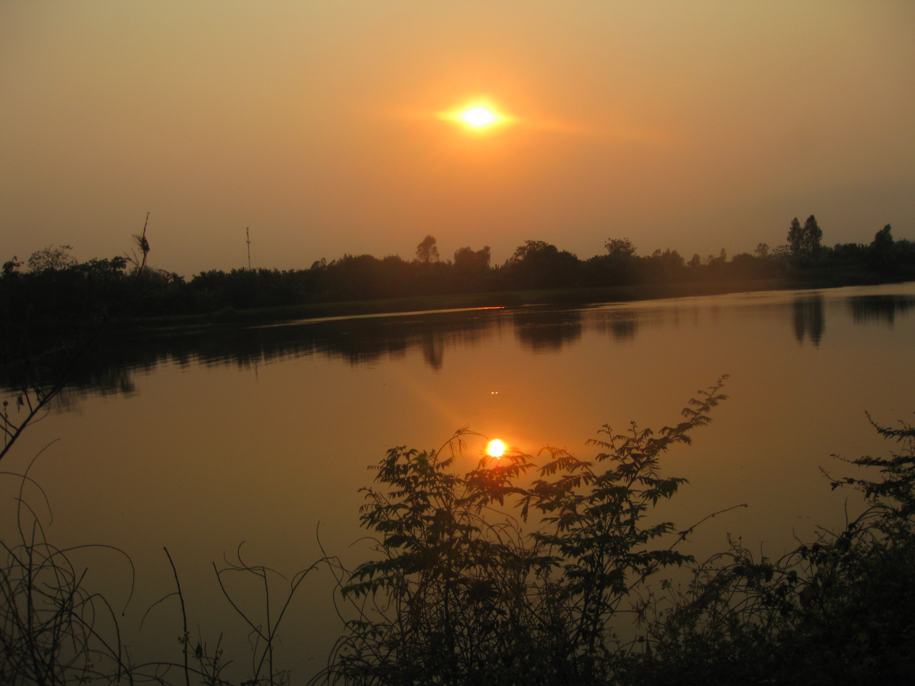 very good